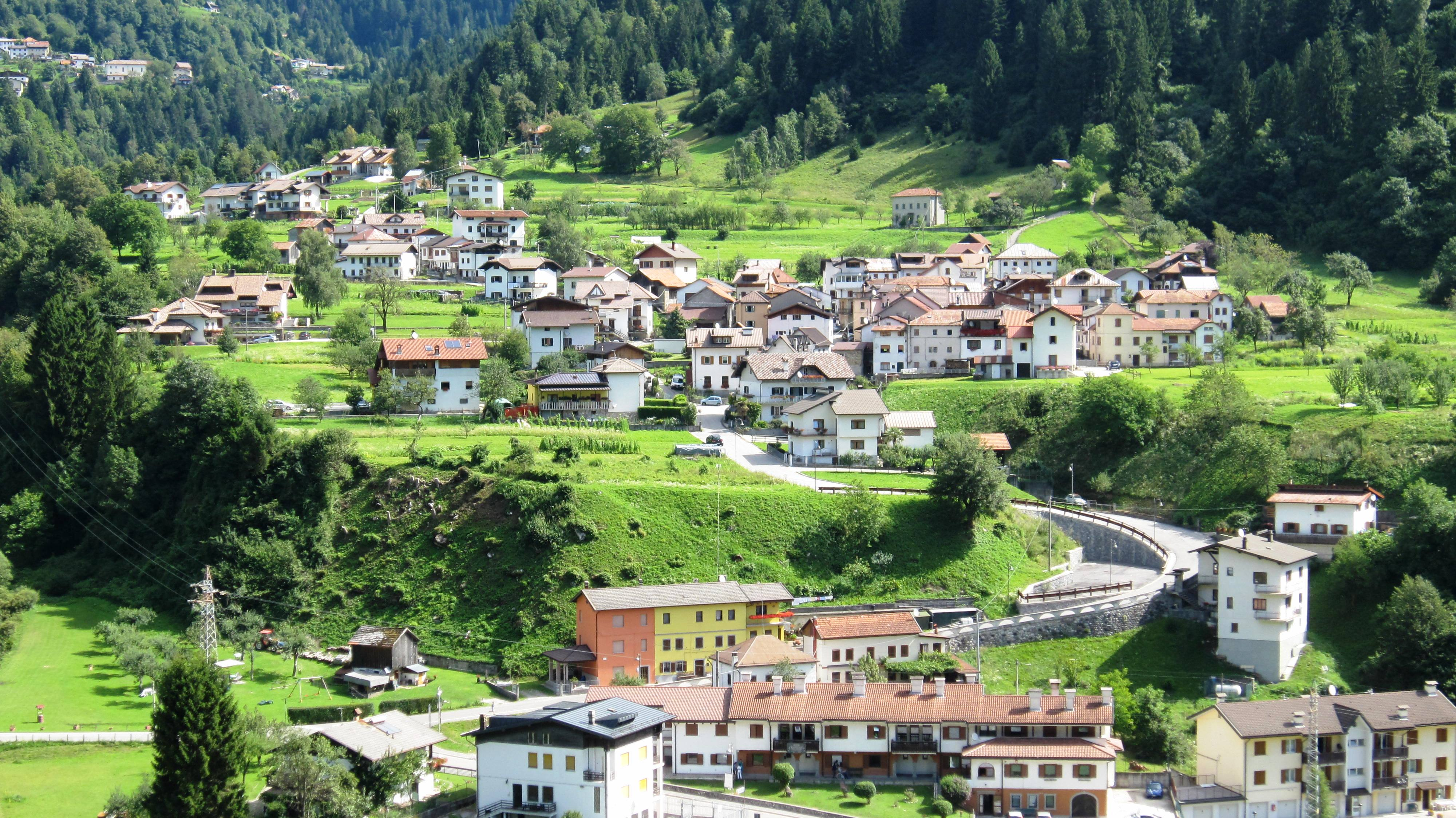 paularo frazione casaso